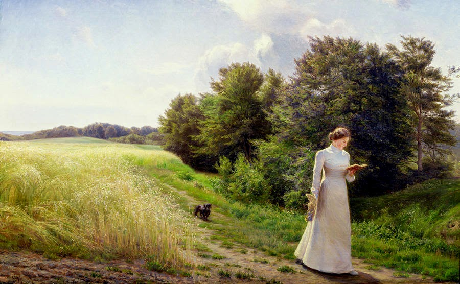 Lady in White, Reading